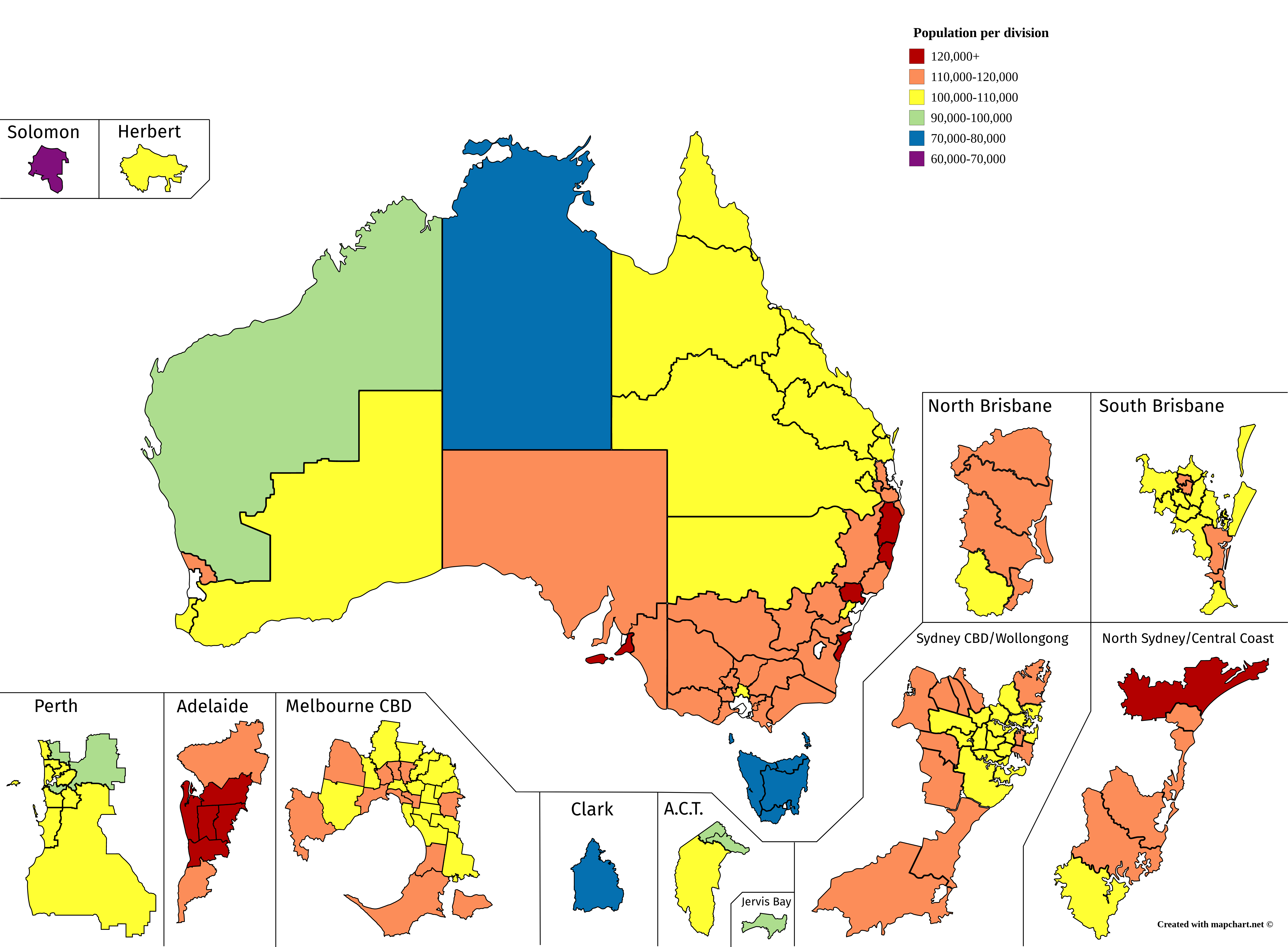 Shows the population of each Australian electoral division